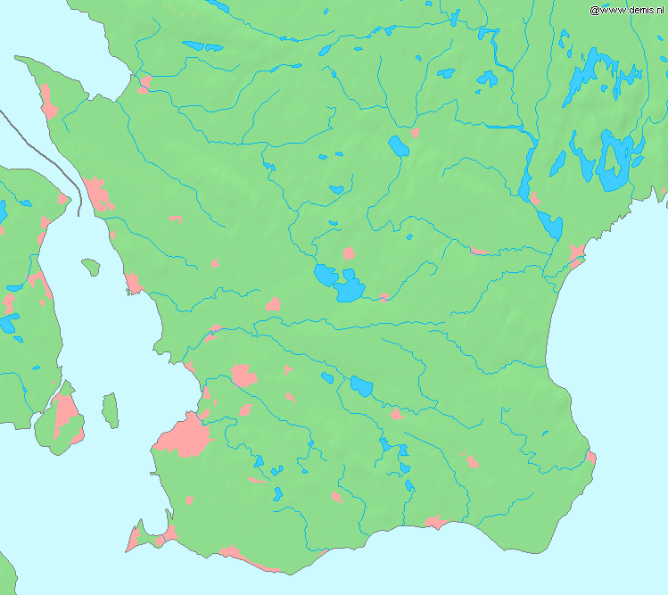 Map of Scania, a province in Sweden. Bounding box West 12.4°, South 55.3°, East 14.6°, North 56.4°. Center at 55°51′00″N 13°30′00″E / 55.85000°N 13.50000°E.